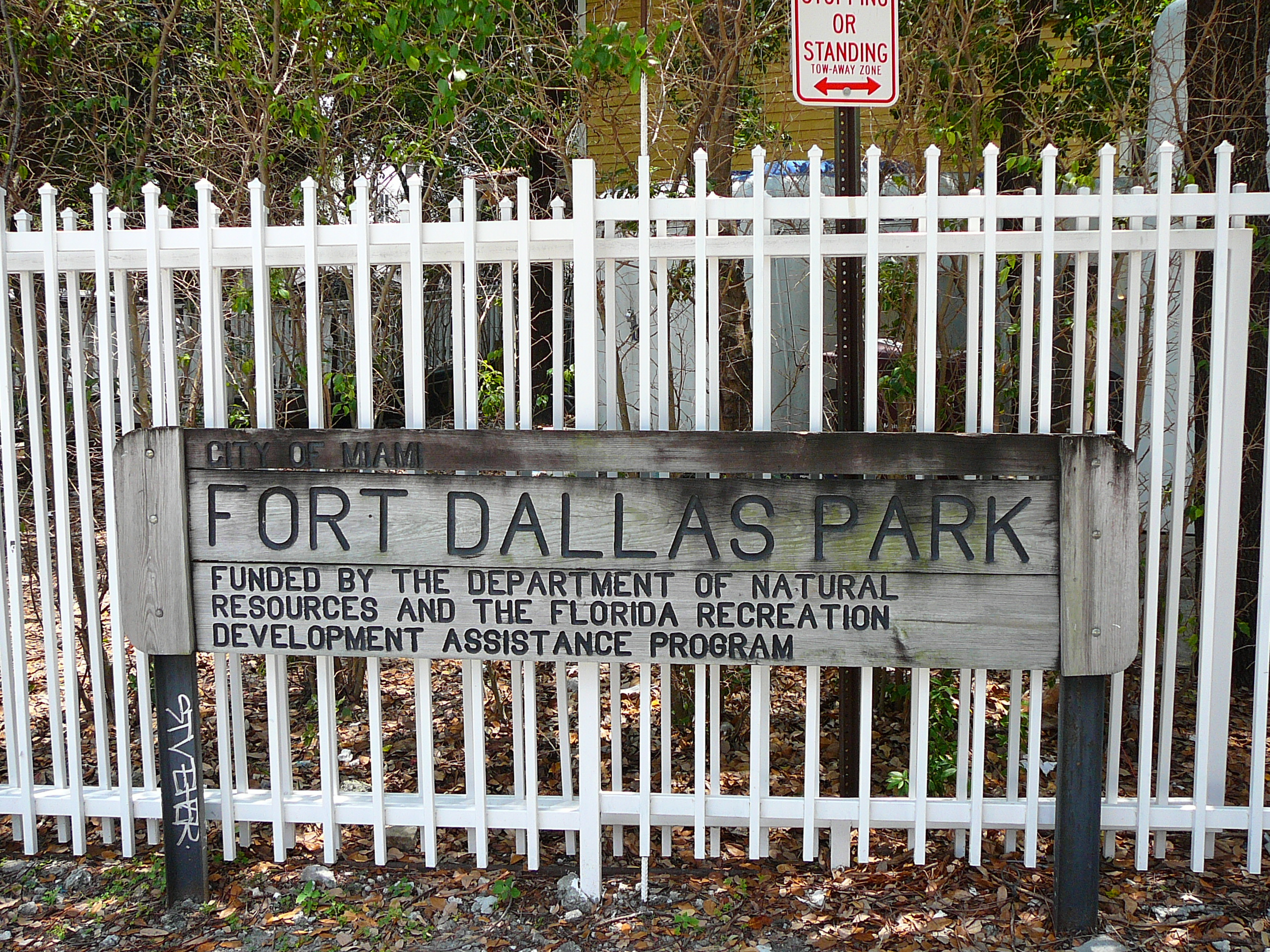 Digital photo taken by Marc Averette. The Fort Dallas park sign in downtown Miami 5/14/2008